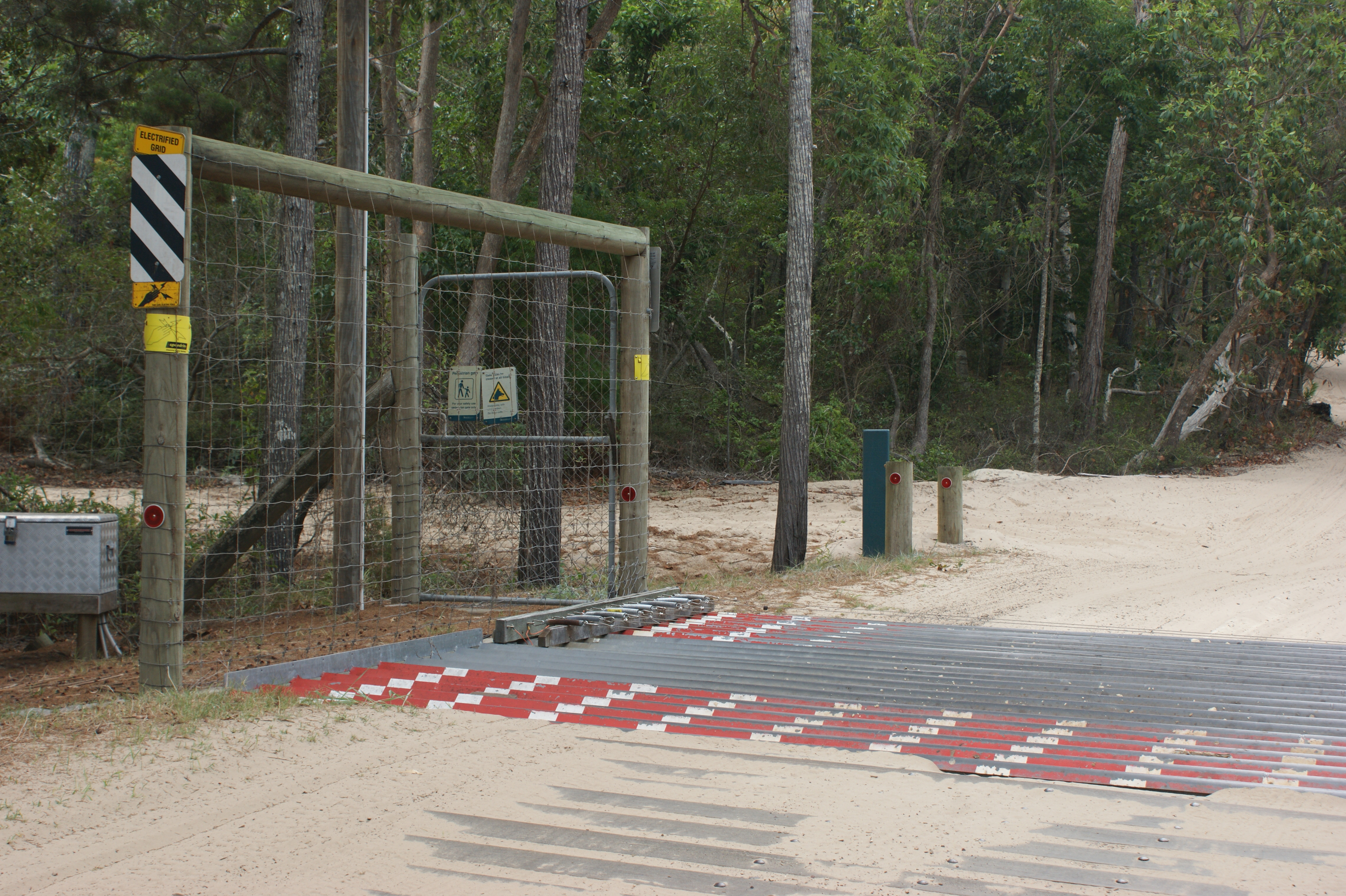 Dingo fence in Eurong, Fraser Island, Queensland, Australia